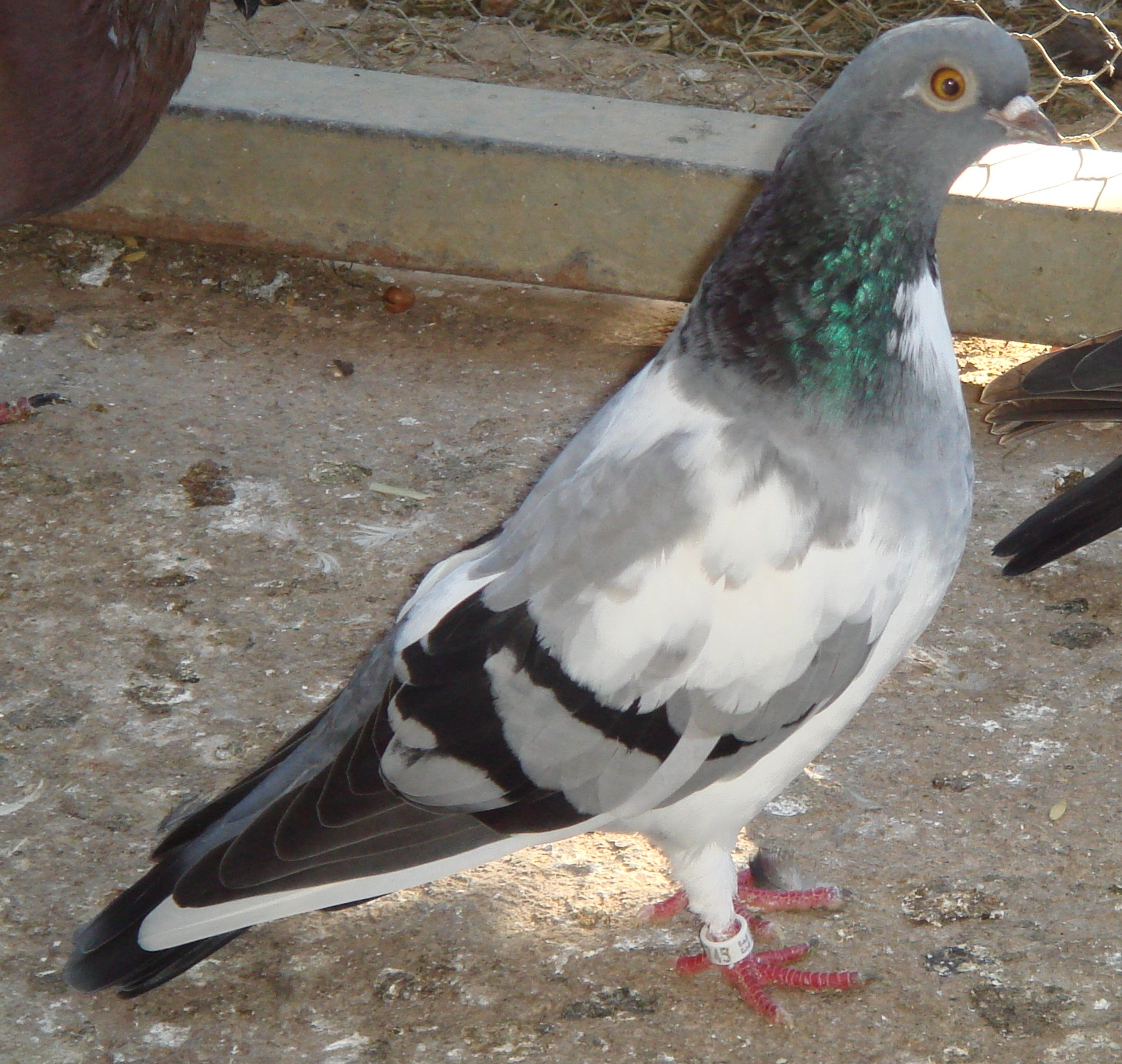 pigeon